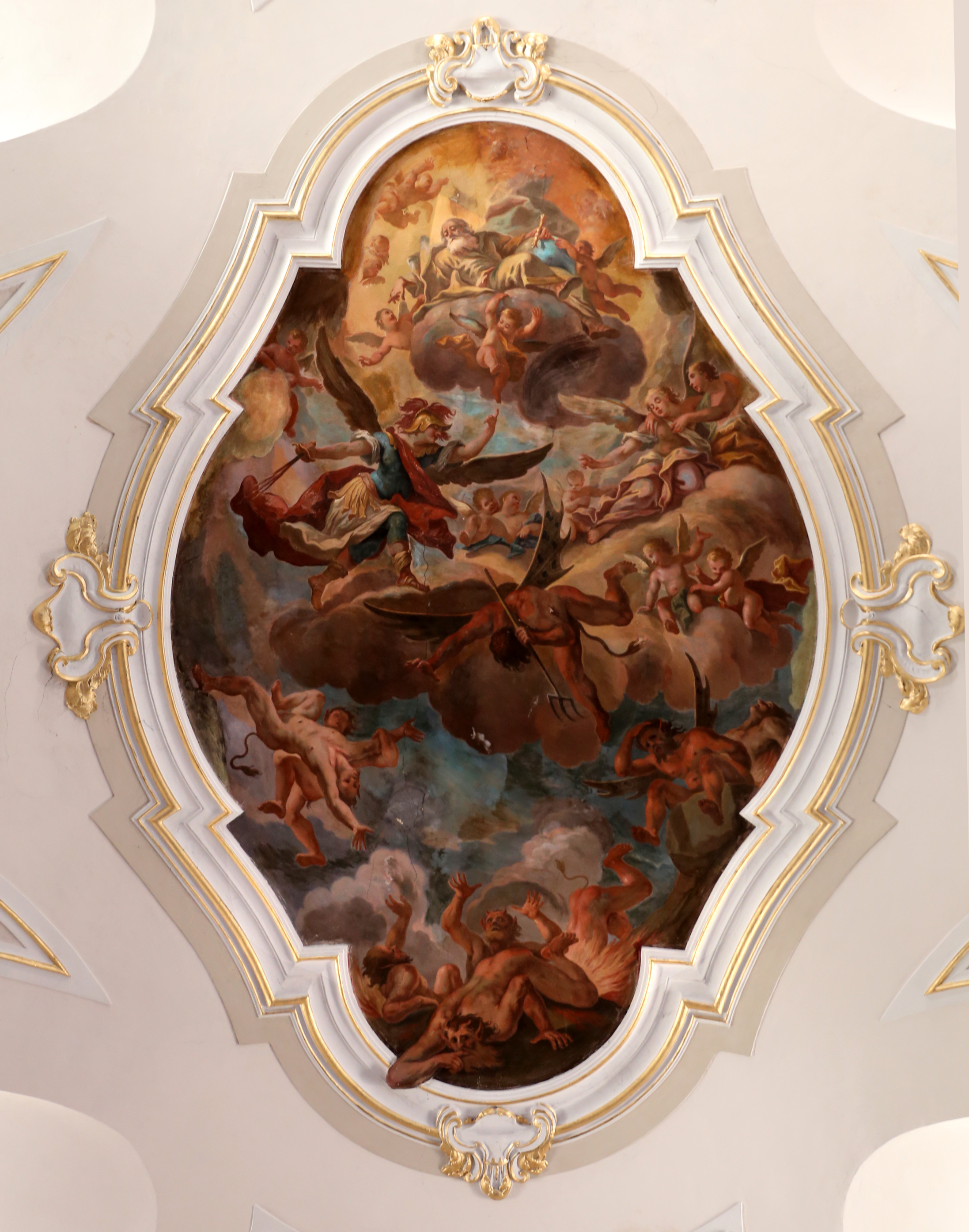 Santa Chiara (Guardiagrele)